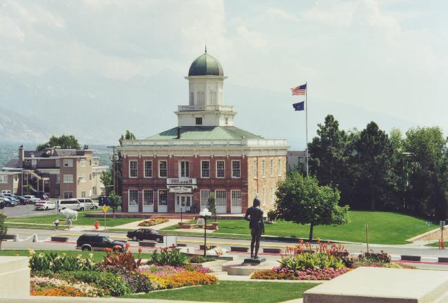 Salt Lake City Council Hall in front of the Utah State Capitol, Salt Lake City, Utah. Taken by me in 2002.